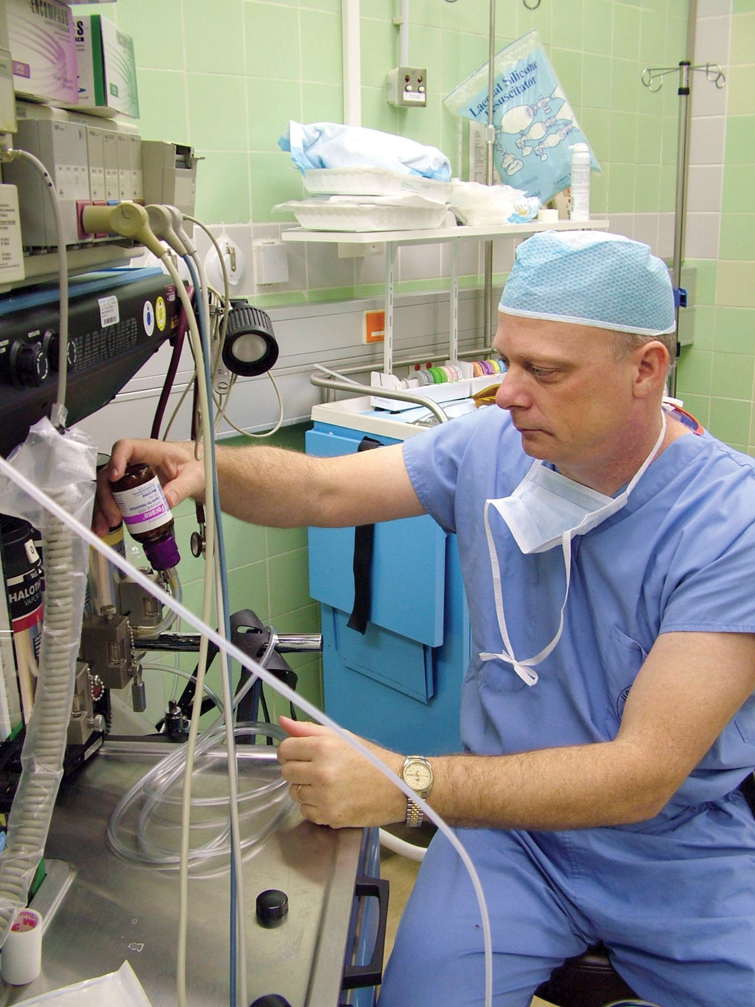 US military doctor Mike Bagwell at Spangdahlem Air Base in Germany, January 2006